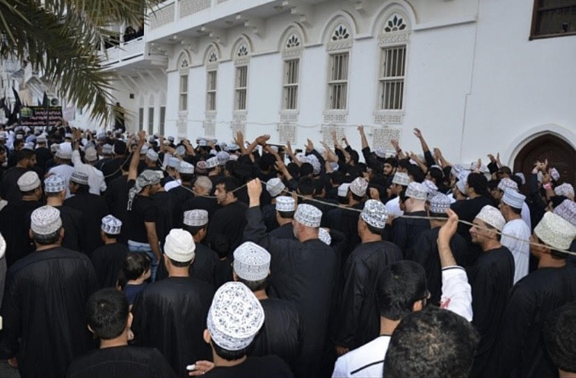 Mutrah Corniche During the Visit of Husayn ibn Ali on the 10th of Muharam